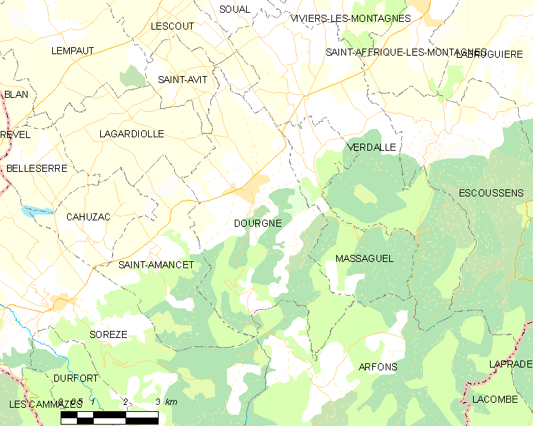 Map of French municipality Dourgne